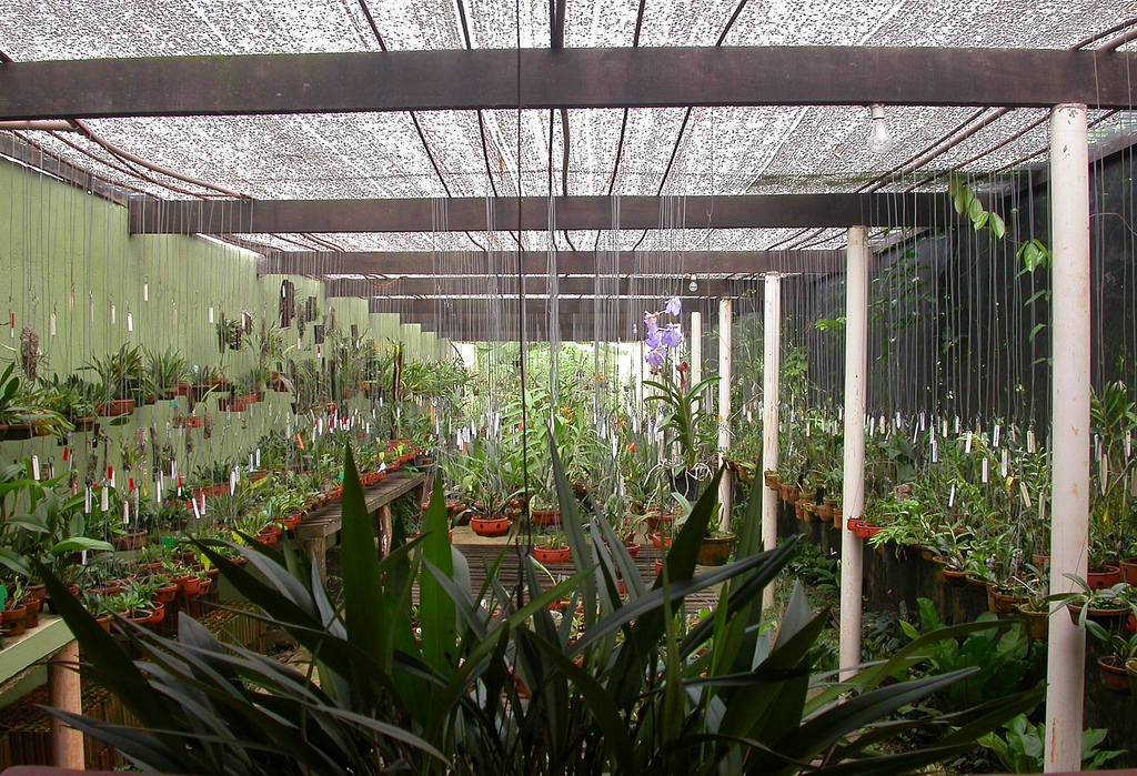 View of an Orchid collection in a nursery in Brazil.